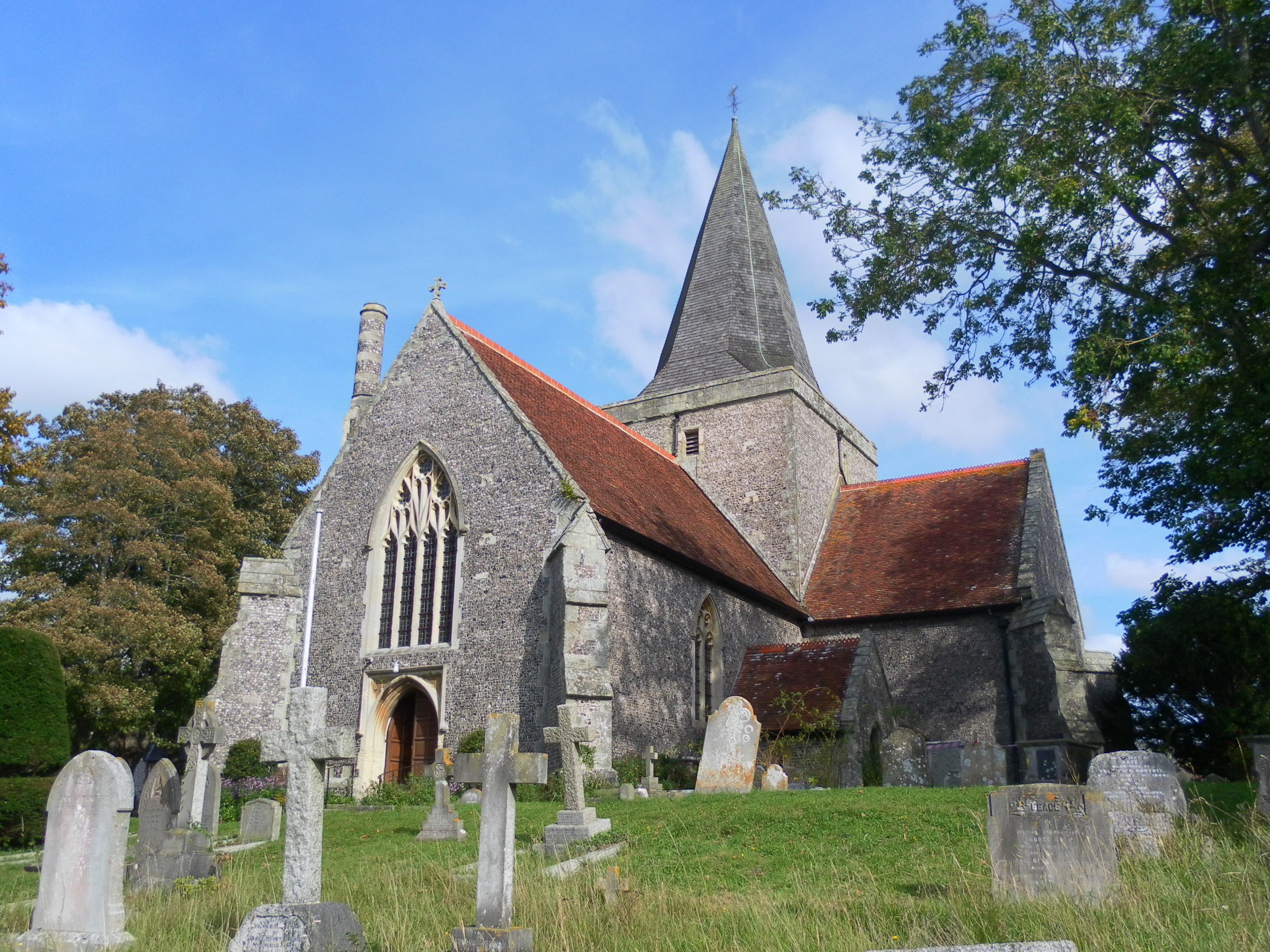 St Andrew's parish church, Alfriston, East Sussex, seen from the southwest